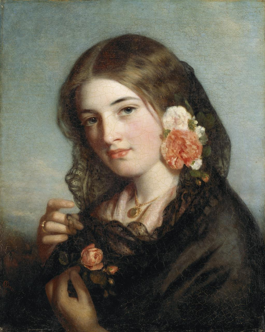 Rose of England by Charles Baxter; oil on canvas, 54.0 × 43.2 cm, inscribed (diagonally) in brown paint l.l.: C. Baxter / 1861. National Gallery of Victoria, Melbourne.